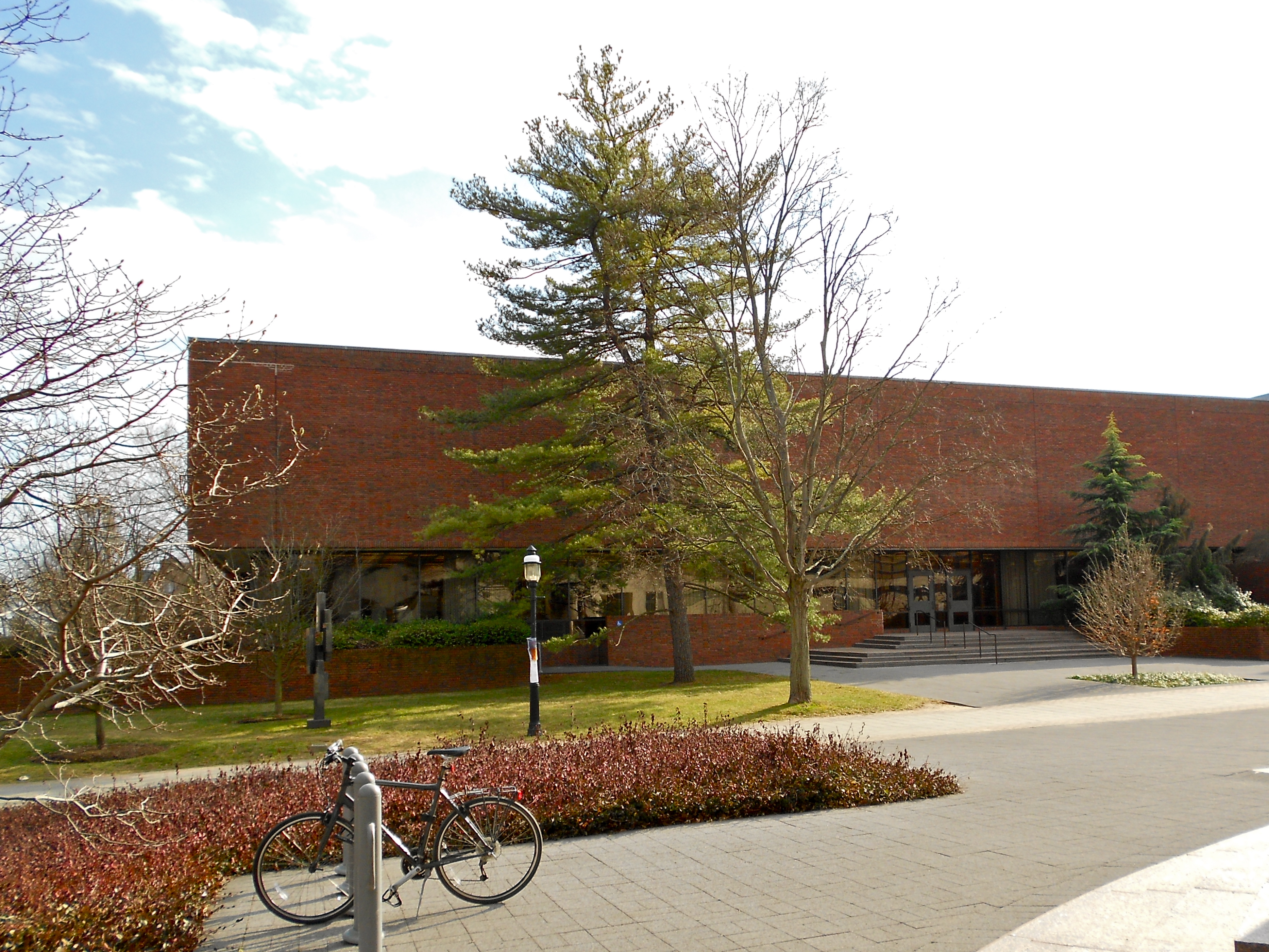 Mudd Manuscript Library on the Princeton University Campus, where the Princeton Editathon was held today.